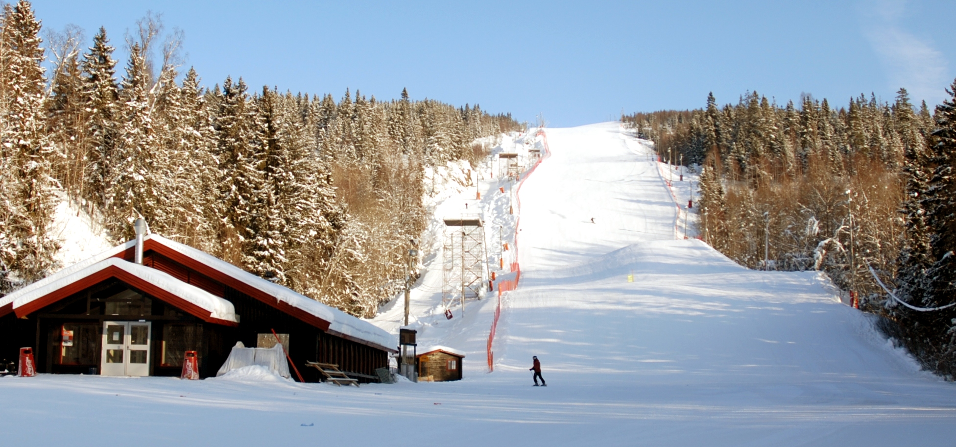 Wyllerløypa in Oslo is a part of Tryvann winterpark and is, with its 1300 meters, the longest part of the winterpark.